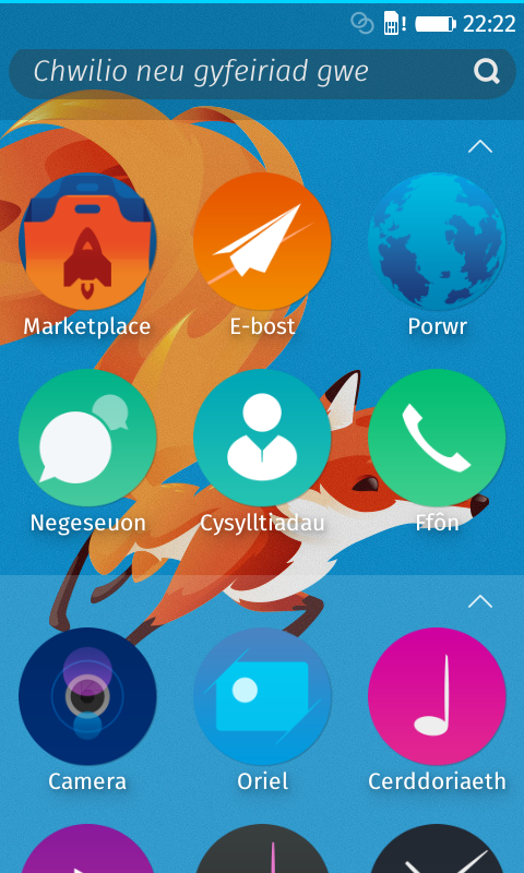 This is a screenshot of the home screen of Firefox OS 2.2.0 in Welsh.